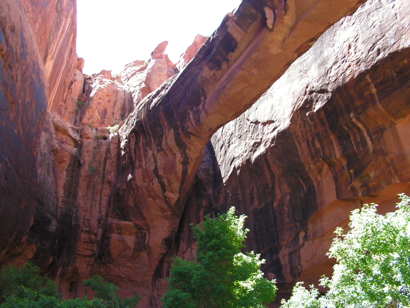 Morning Glory Natural Bridge, some five miles east of Moab, Utah, at the end of Negro Bill Canyon. Morning Glory is not actually a natural bridge, but is instead a very large alcove arch. The arch's span is 243 feet, and is a mere 15 feet from the cliff wall.